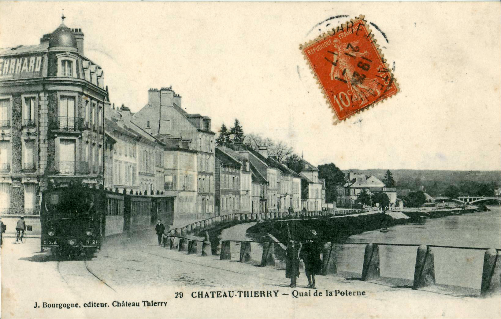 Postcard : 29 - Château-Thierry - Quai de la Poterne - view of the road from Château-Thierry to Brasles, featuring a train from the CSA (Chemins de fer du Sud de l'Aisne), composed of a Pinguely steam locomotive and three cars. The old "pont du CSA" (CSA bridge), destroyed during WWI, can be seen in the background.